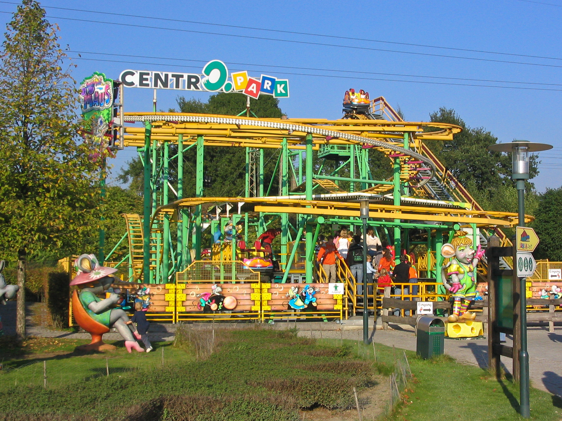 Roller Coaster Speedy at CentrO.PARK, Spinning Wild Mouse by Maurer Söhne